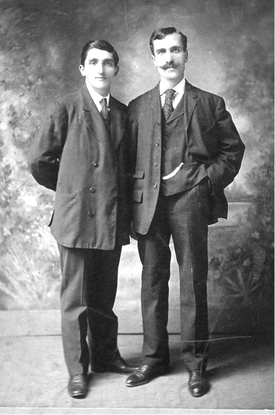 Constantine Stefanove and Ivan Radulov 1904 New York